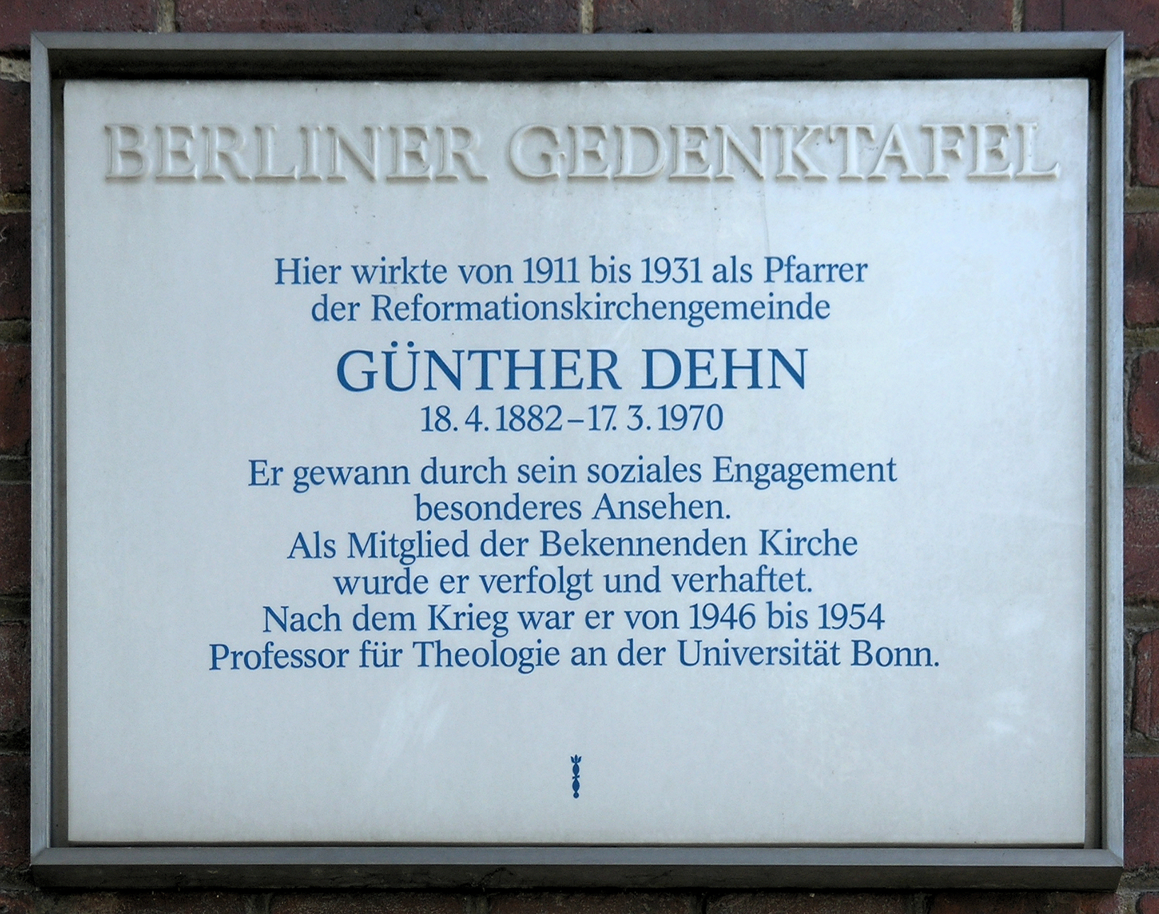 Berlin memorial plaque, Günther Dehn, Wiclefstraße 33-35, Berlin-Moabit, Germany